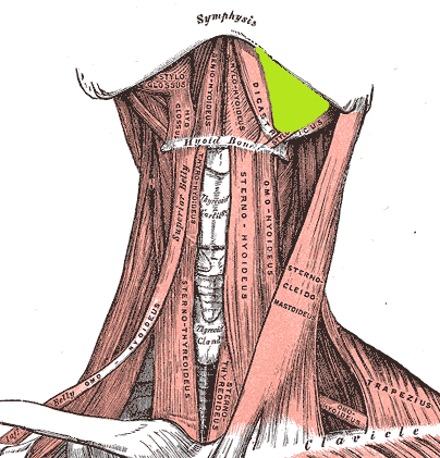 Edit of Gray386.png cropped and highlighted submandibular space in green